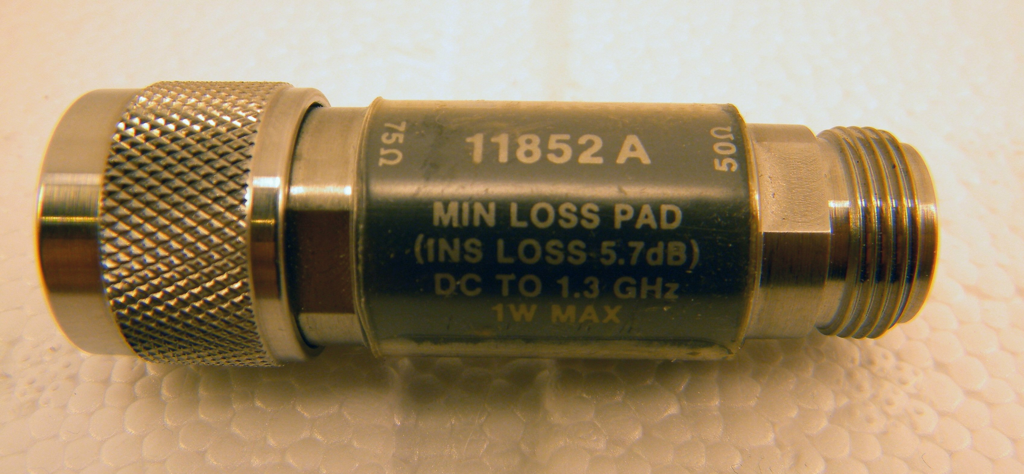 An in-line resistive impedance matching L-Pad for 50 to 75 ohm onversion and rated to 1 watt of power.